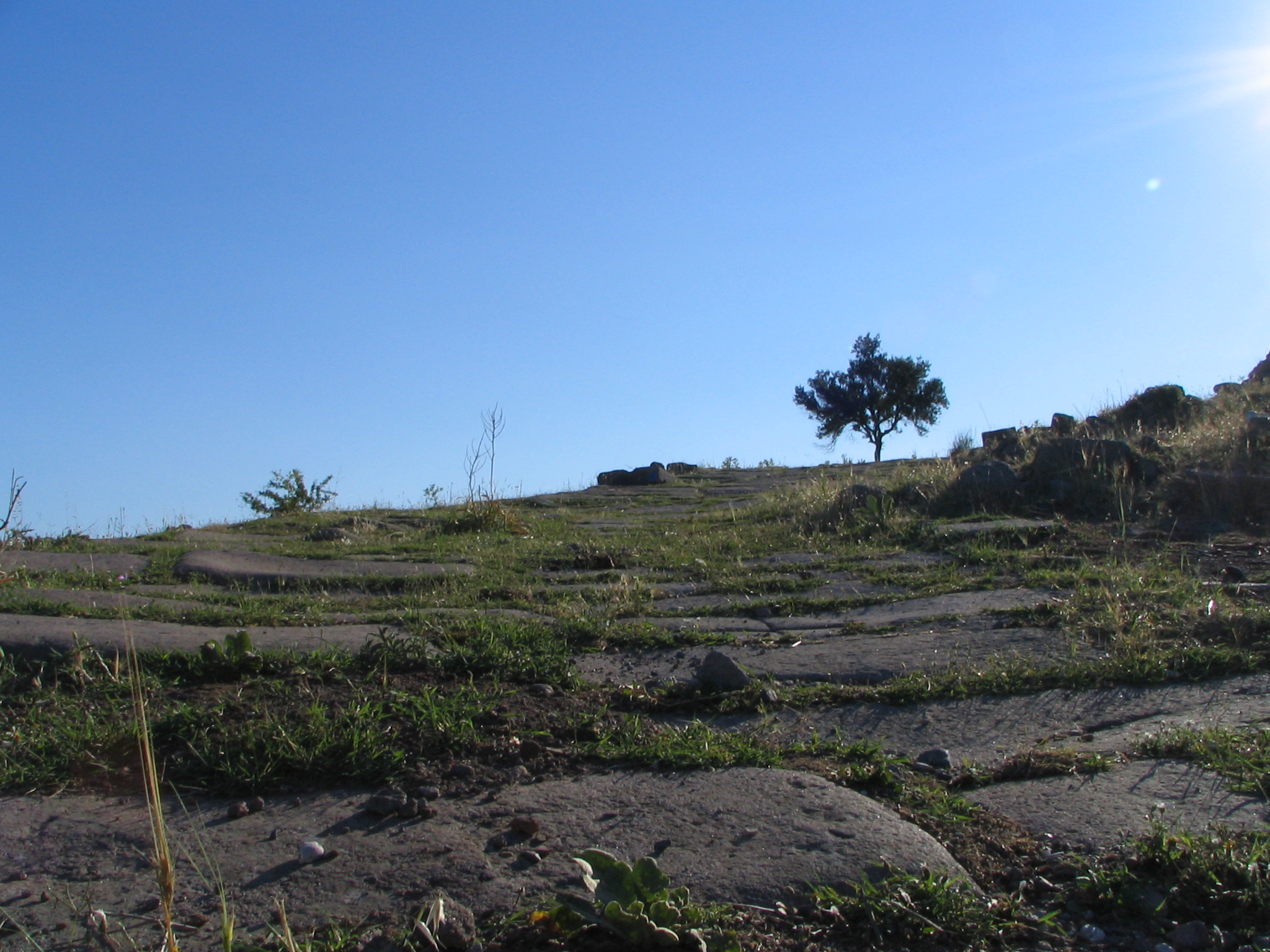 Pergamon (Bergama, Türkei), paved street